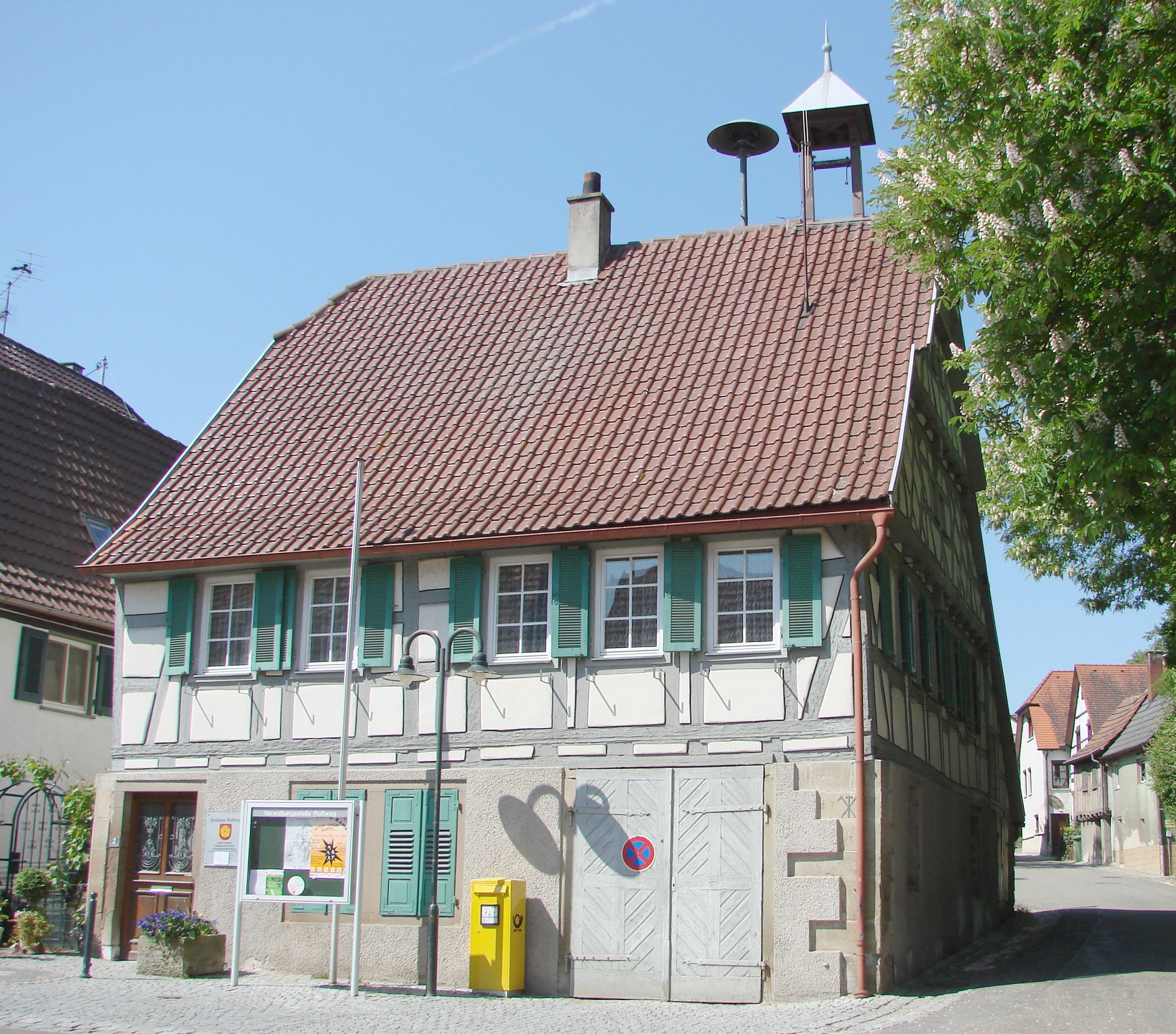 Roßwag, Germany, former guild hall